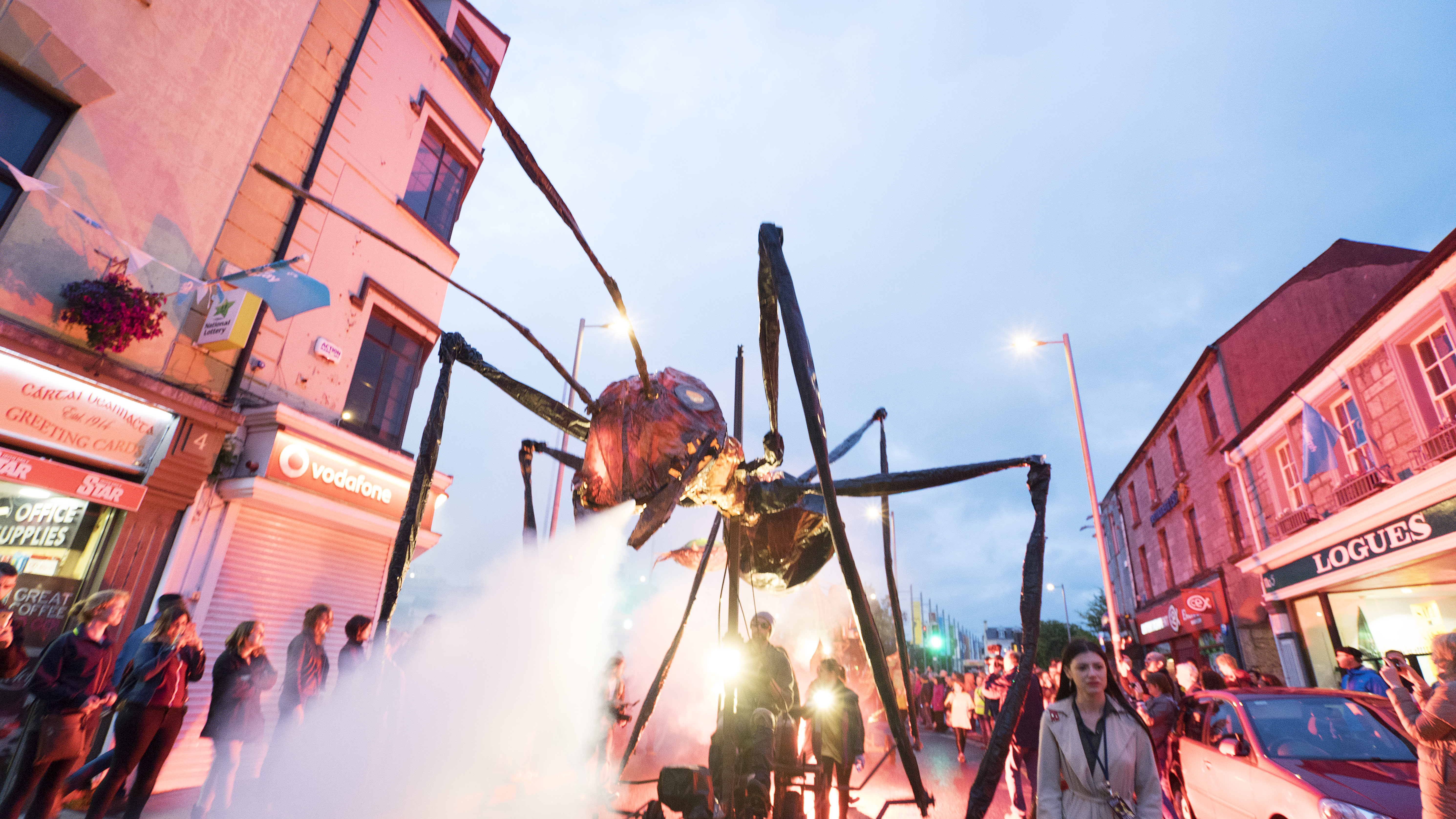 Sarruga Insects Street Spectacle